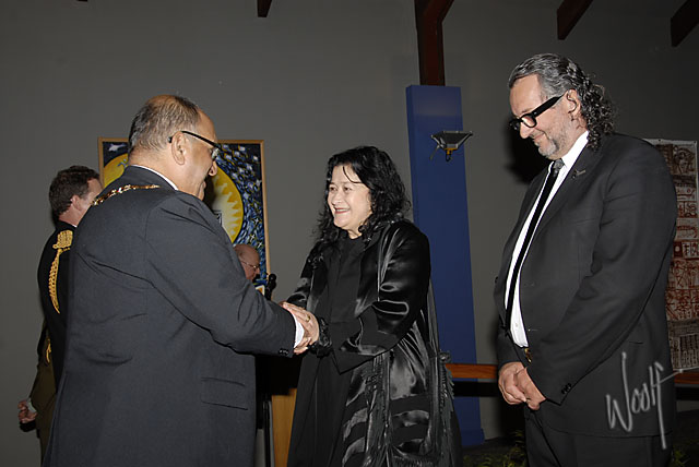 Investiture of Liz Findlay (centre) and Neville Findlay (right) as Officers of the New Zealand Order of Merit, for services to business and fashion, by the governor-general, Anand Satyanand, at Government House, Auckland, on 23 September 2008.